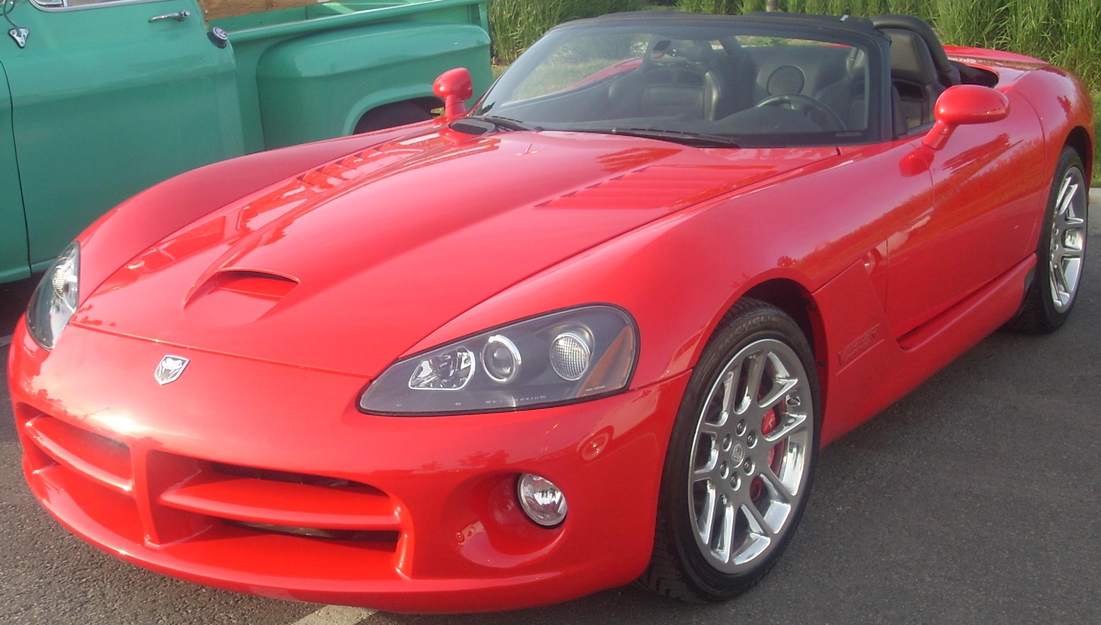 Dodge Viper SRT-10 photographed in Laval, Quebec, Canada at Centropolis Laval.